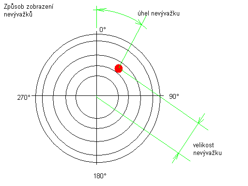 drawing of unbalance